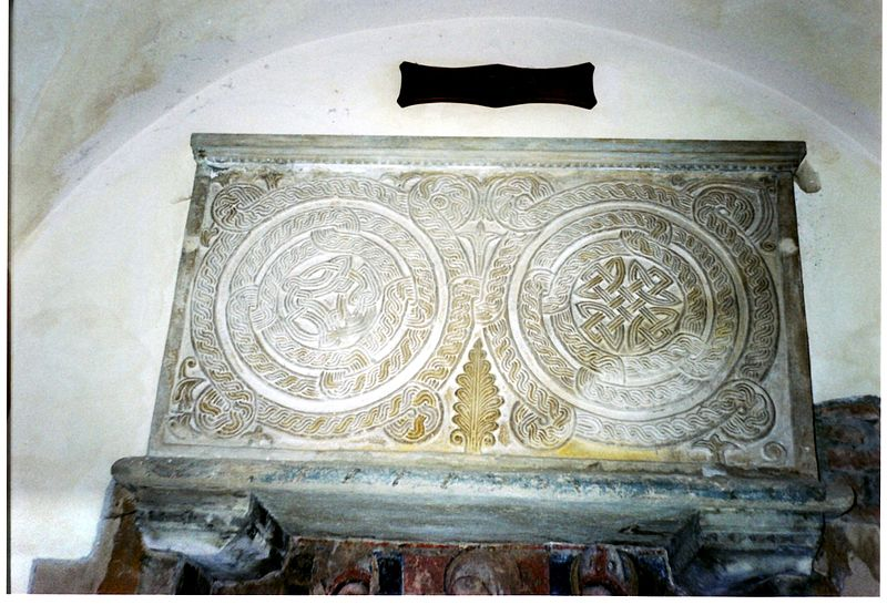 This is the grave of saint Cumianus, who died in 736